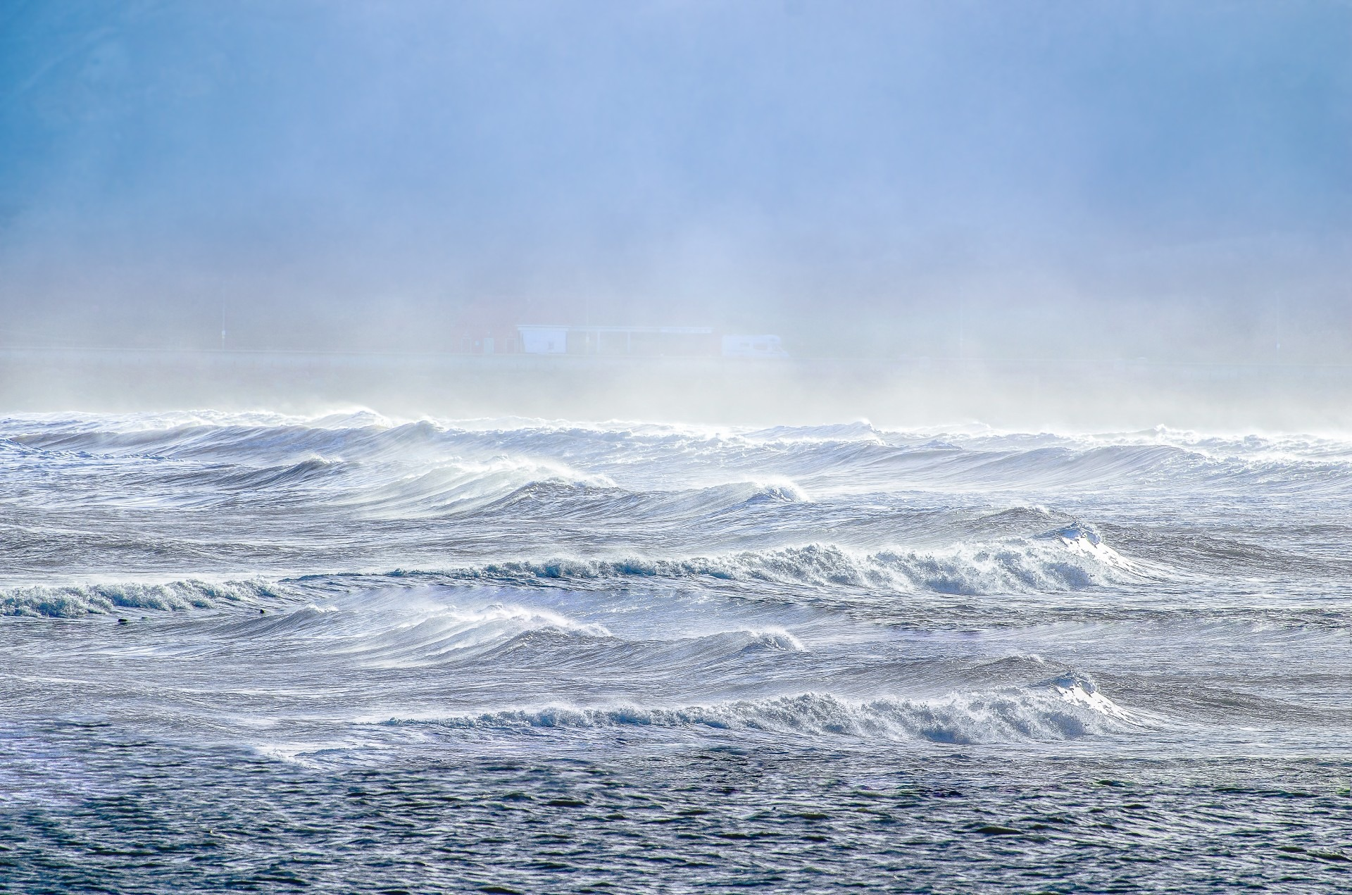 Ocean mist and spray